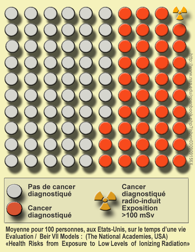 During a lifetime, approximately 42 (red circles) of 100 people will have cancer2 from causes unrelated to artificials radiations. The models suggest approximately one cancer (yellow symbol) in 100 people could result from a single exposure 100 mSv of low-LET artificial radiations